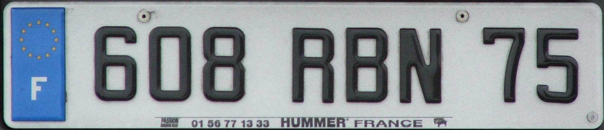 Vehicle licence plate from France as seen in 2008, "75" stands for Paris department.